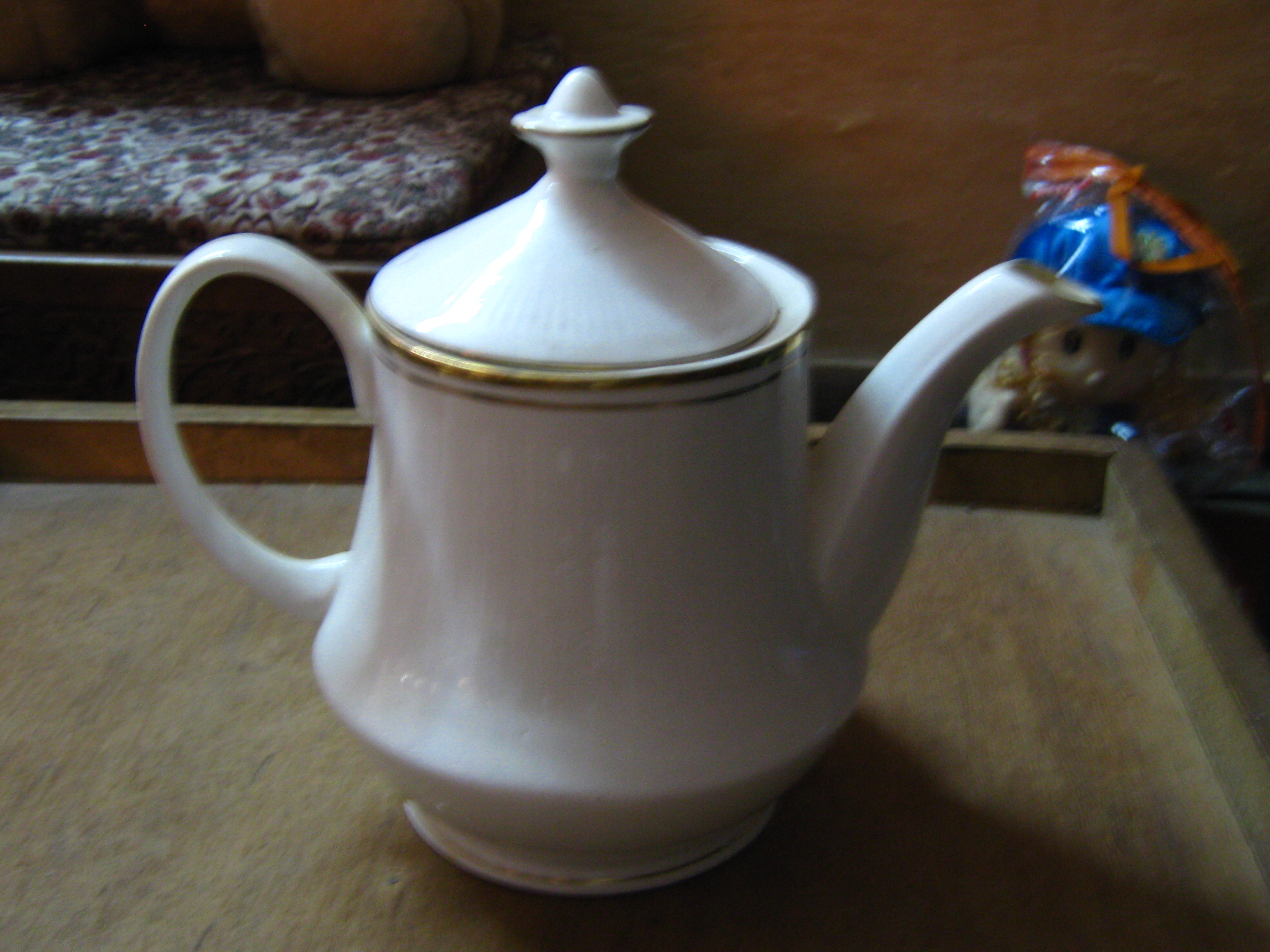 utensils used in Indian kitchen.